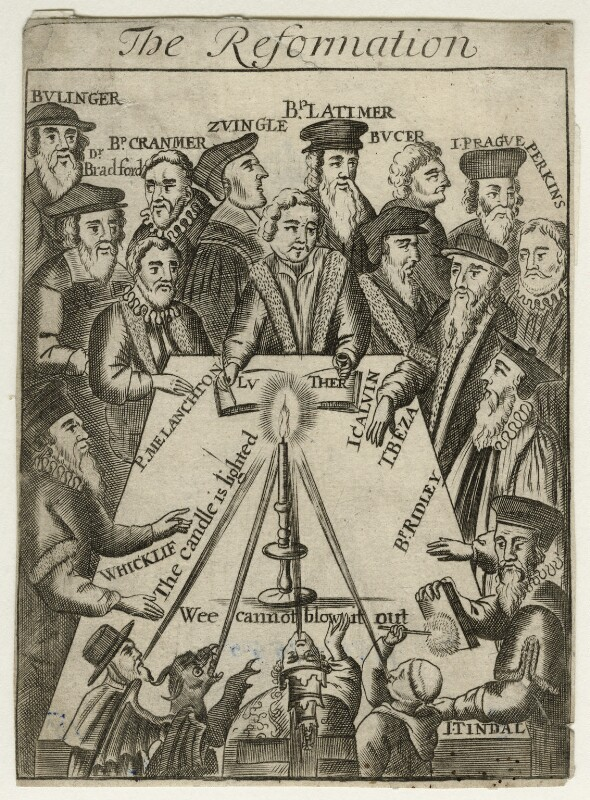 The Reformation, NPG D23051